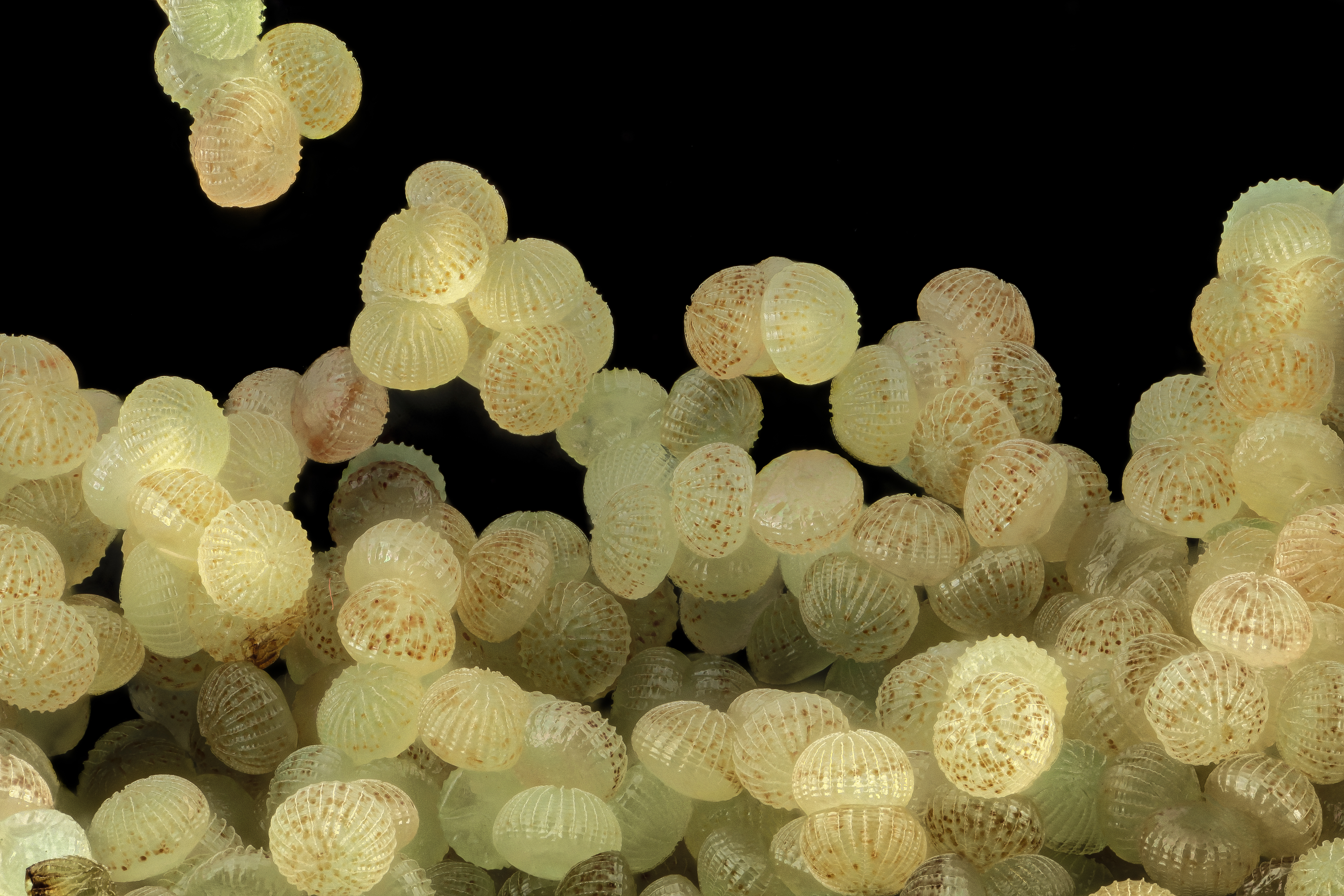 Anticarsia gemmatalis - Velvetbean Caterpillar - This species can't overwinter in most of North America but moves north to populate bean and legume fields in large enough numbers to become a major pest, but like our other pesty moths. Photography Information: Canon Mark II 5D, Zerene Stacker, Stackshot Sled, 65mm Canon MP-E 1-5X macro lens, Twin Macro Flash in Styrofoam Cooler, F5.0, ISO 100, Shutter Speed 200